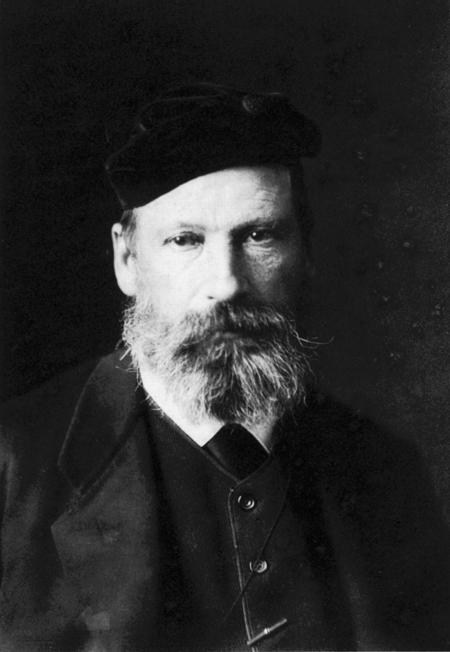 photo of François Bocion (1828 -1890)